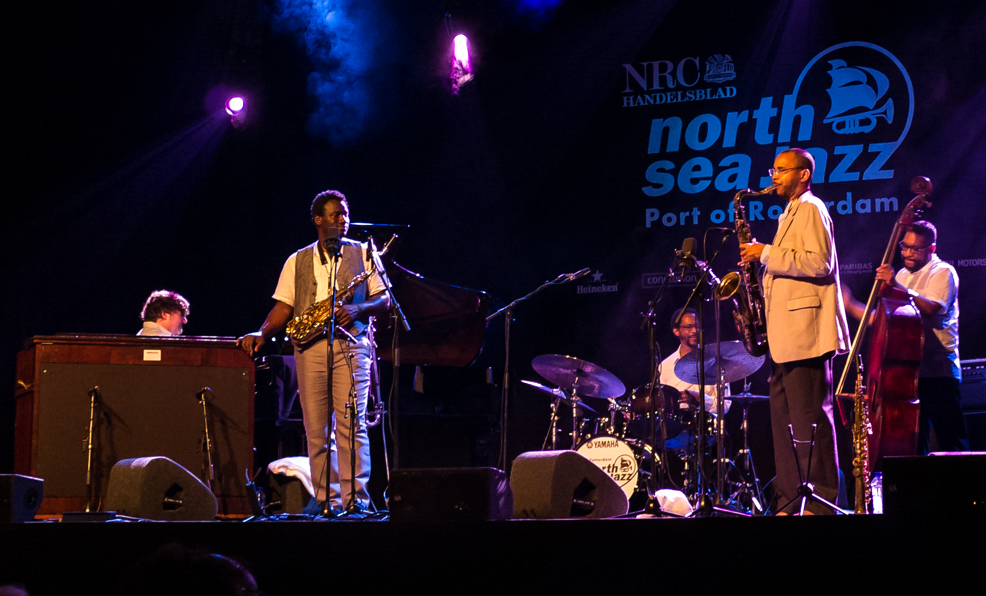 Brian Blade & the Fellowship Band at the North Sea Jazz Festival 2015